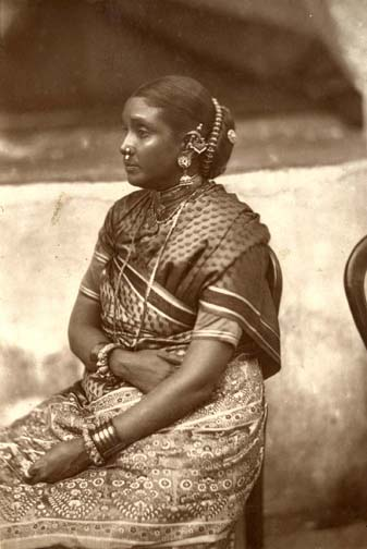 Women in Tamil Sari, in this style the lose end is warped around the waist.